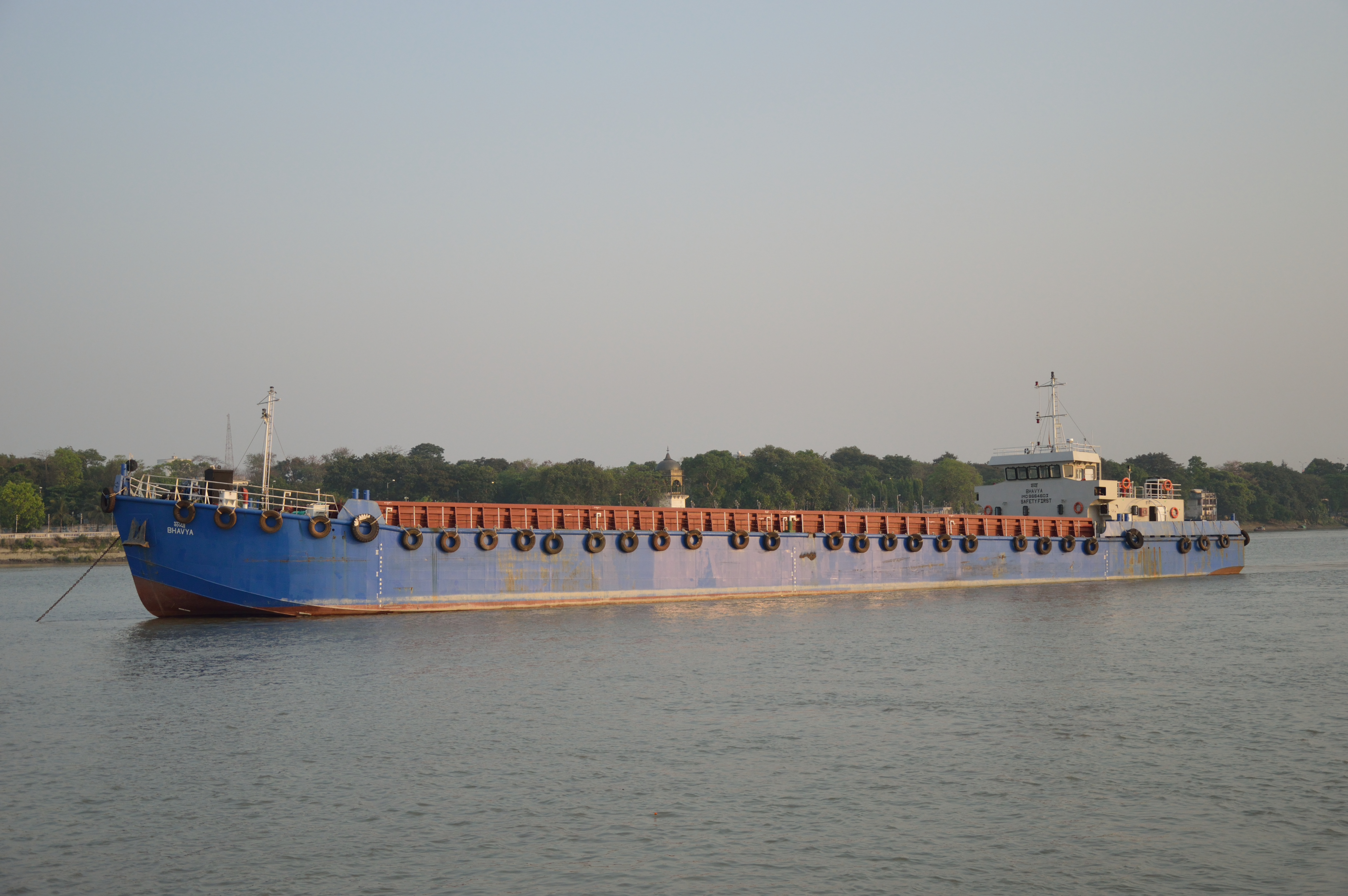 Photographed in Kolkata.